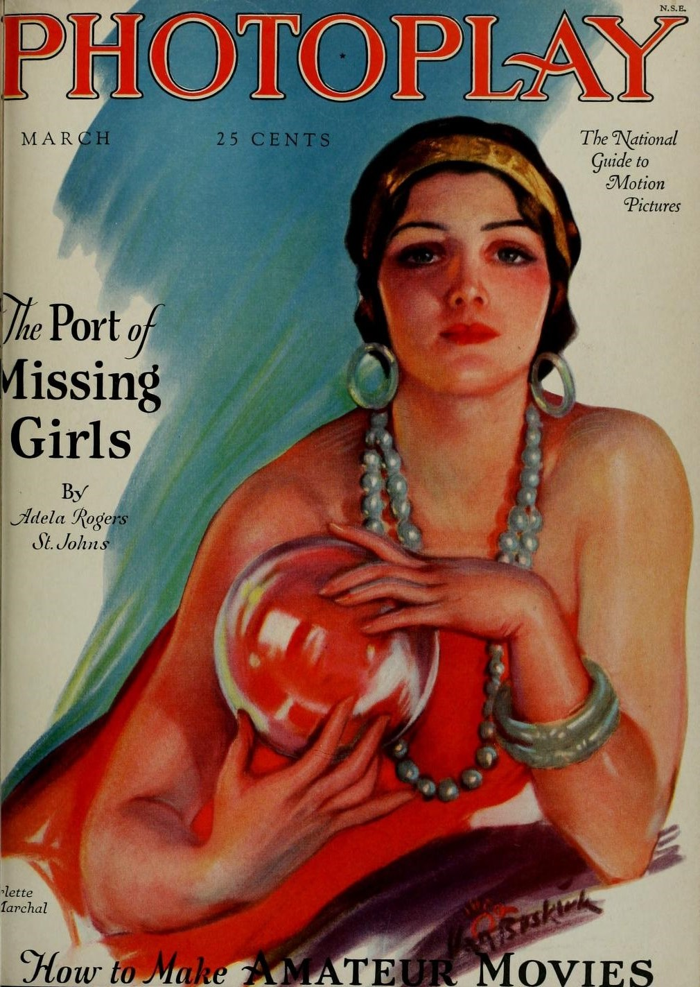 Arlette Marchal by Carl Van Buskirk